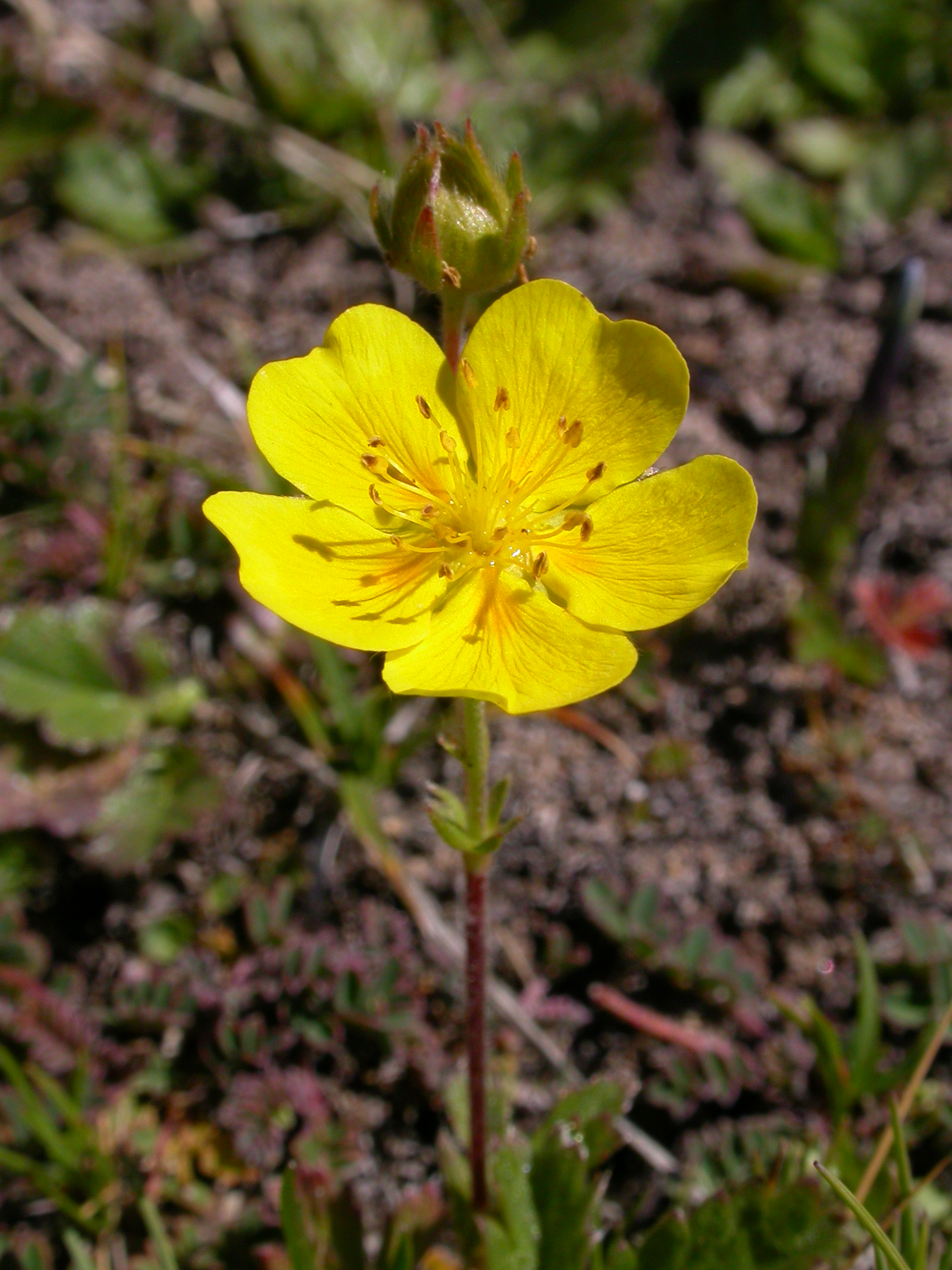 Potentilla grandiflora Zermatt, Riffelberg (Kanton Wallis, Switzerland), 2500 m Author: Barbara Studer – own photograph Date: 2.08.06